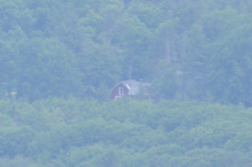 Adams Farm, Harrisville, New Hampshire. As seen from the slopes of Mount Monadnock.